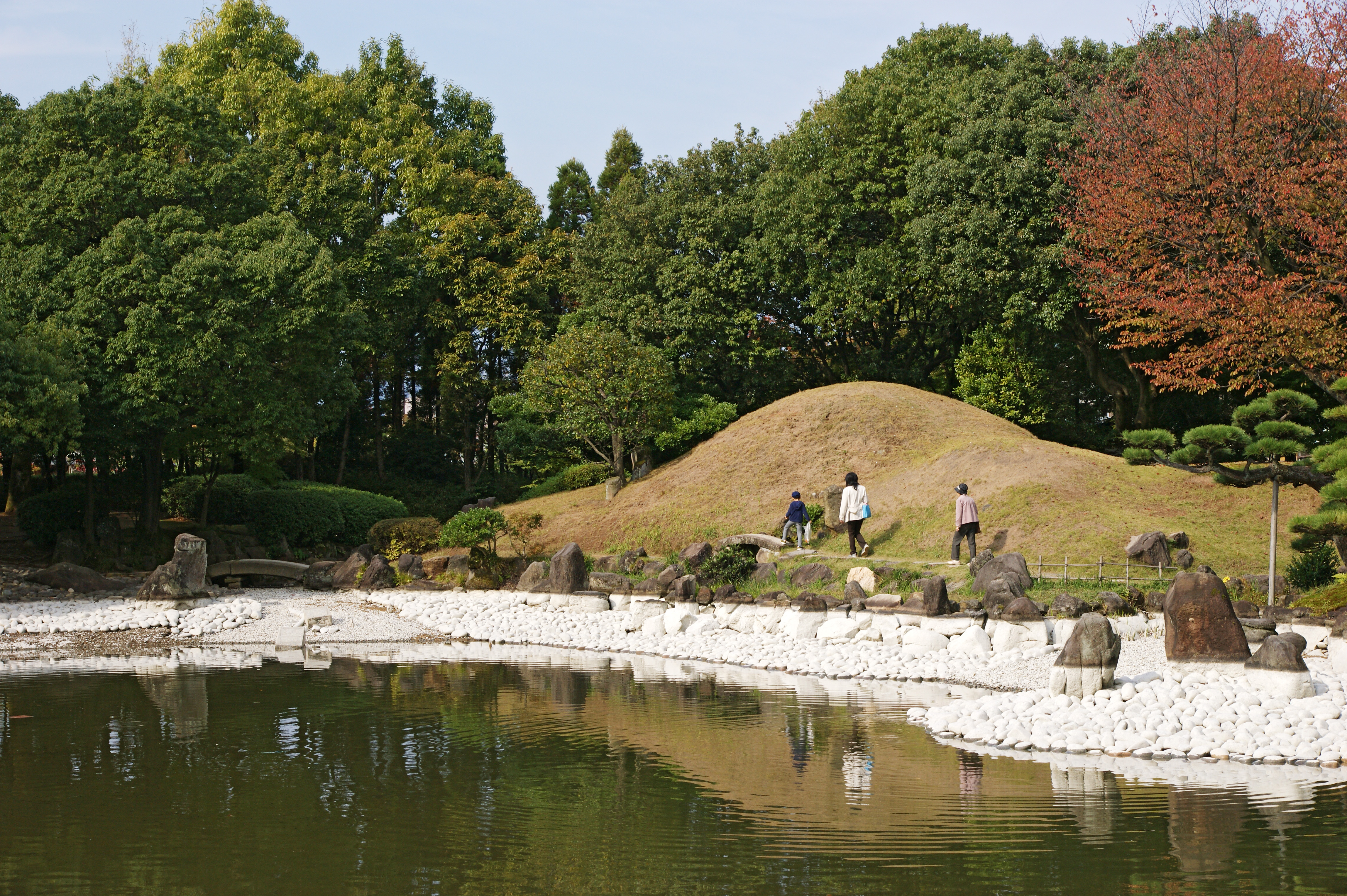 Youkoukan Garden, Fukui, Fukui prefecture, Japan